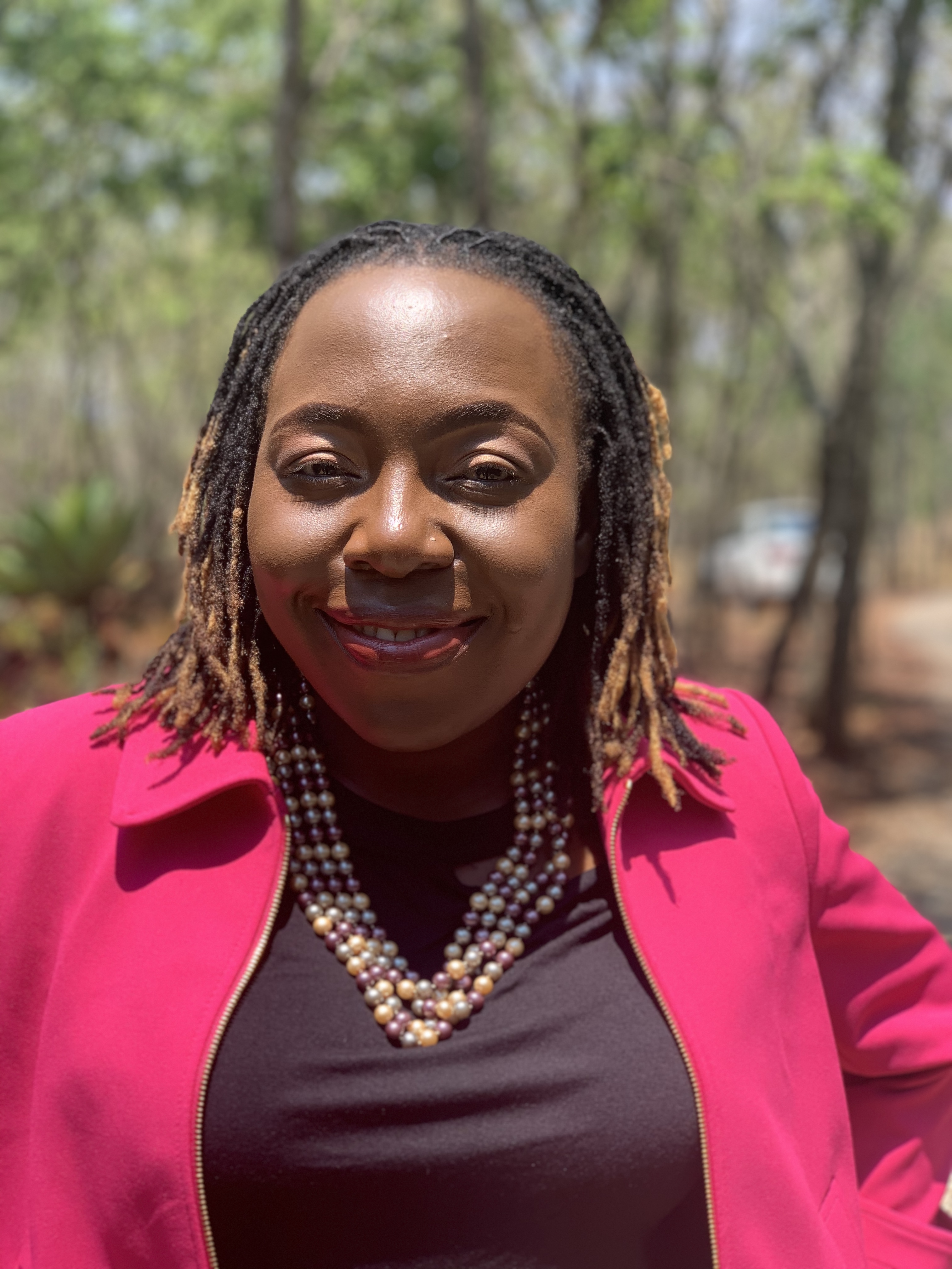 Nyaradzo Mashayamombe in 2020